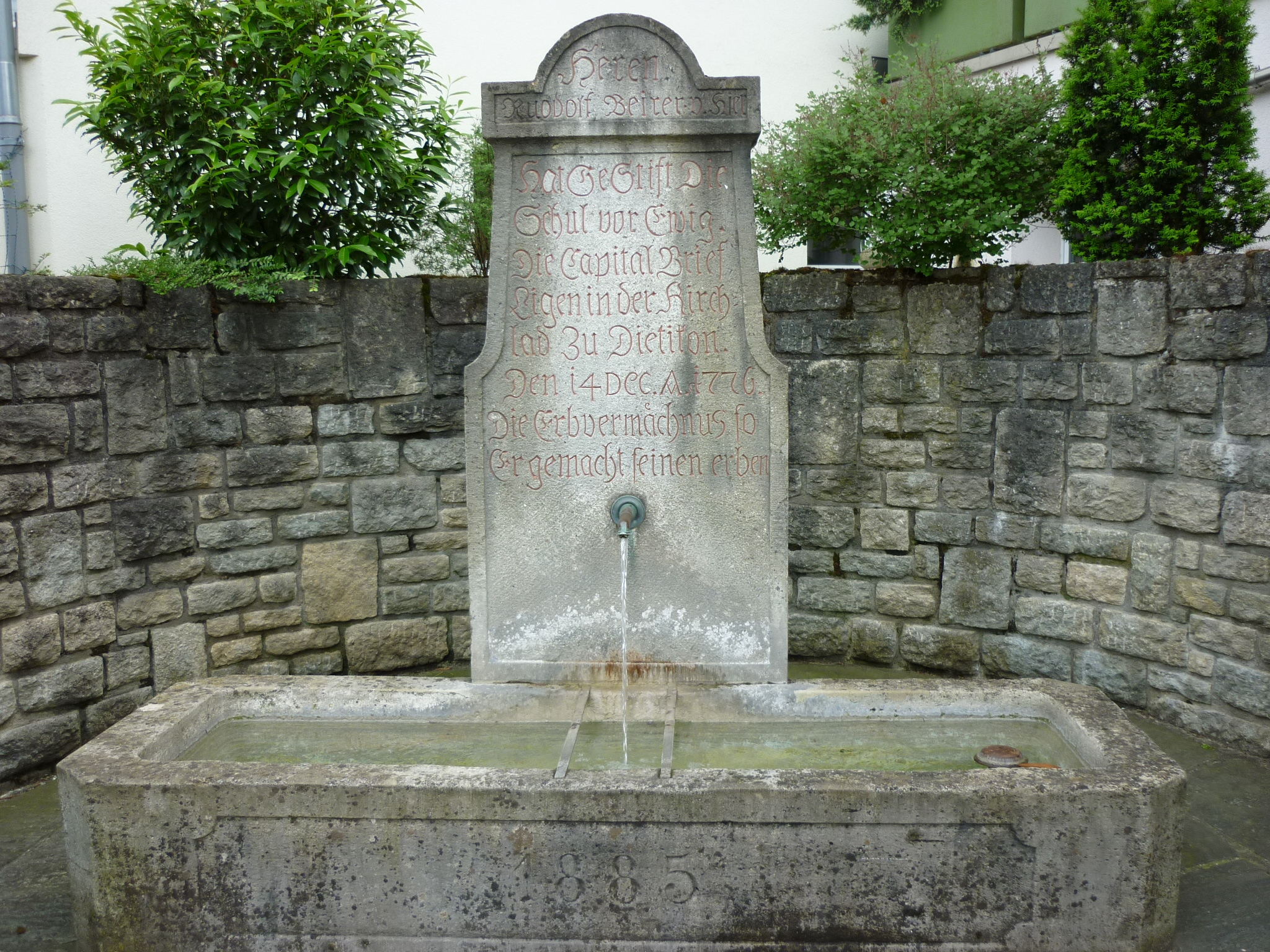 Fountain, Bergdietikon AG, Switzerland